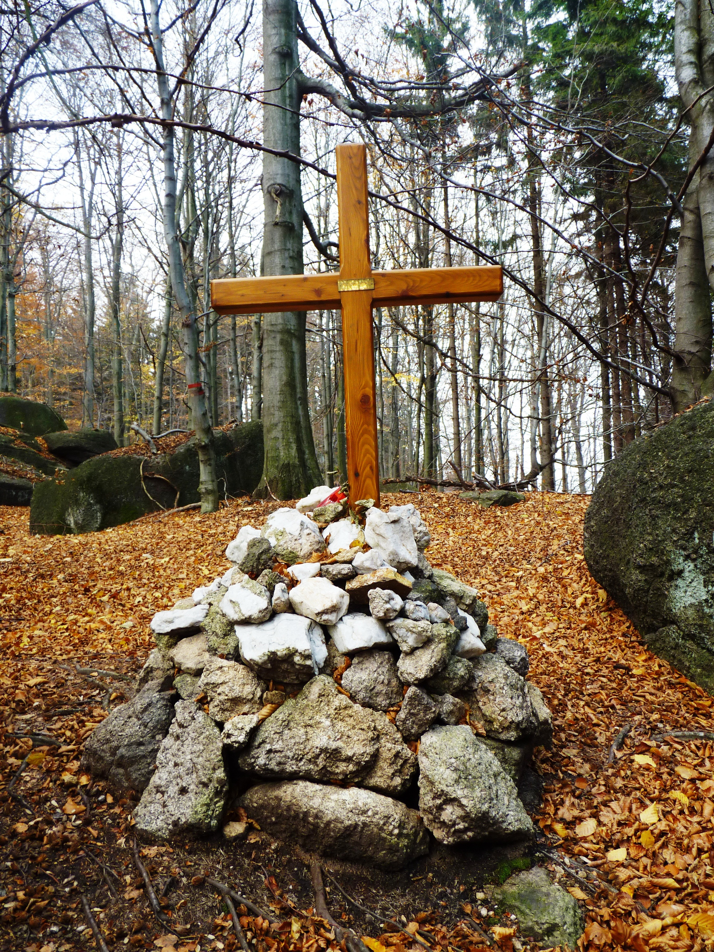 Mackova mohyla